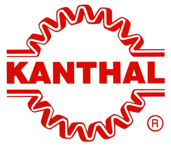 Old Kanthal logo